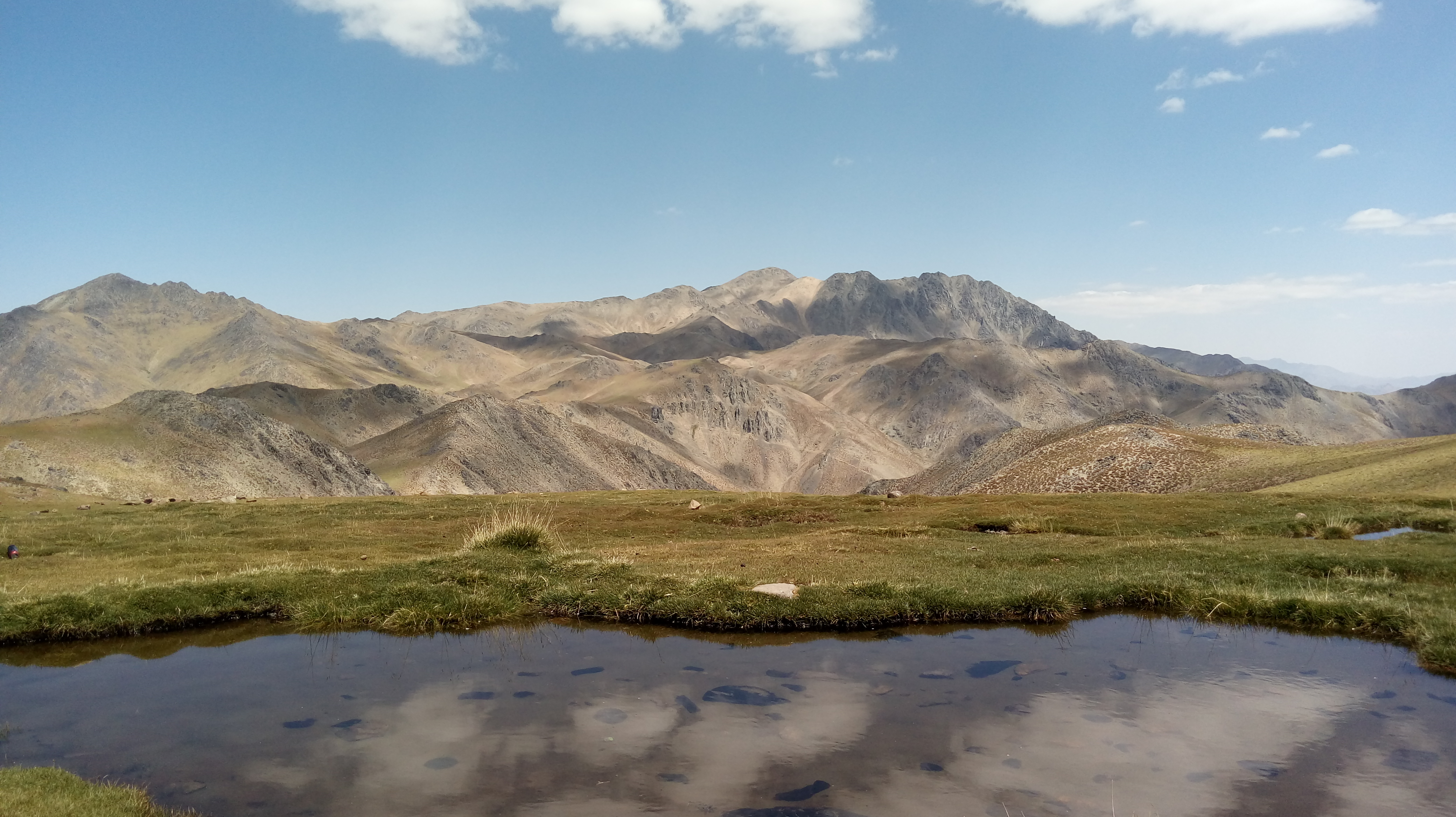 چشمه ی آب معدنی جوچار در ارتفاع 4000 منری کوه شاه مرتفع ترین چشمه ی جنوب ایران و نقطه ی آغازین هلیل رود است.